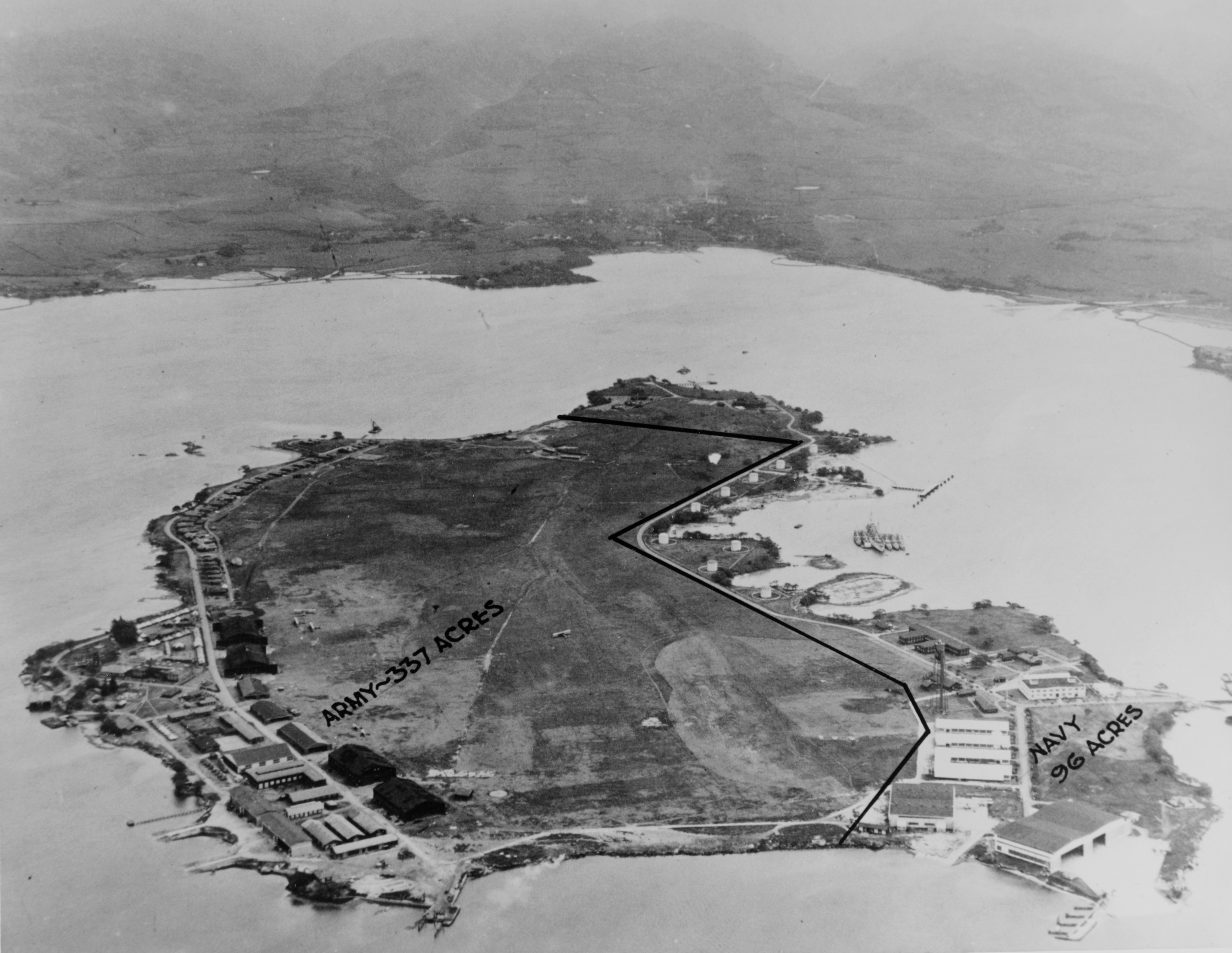 Aerial view of Ford Island, Pearl Harbor, Territory of Hawaii, circa mid-to-late 1920s, showing the approximate boundary between the U.S. Navy and the U.S. Army bases. The flying field, thought owned by the Army, was used by both services.